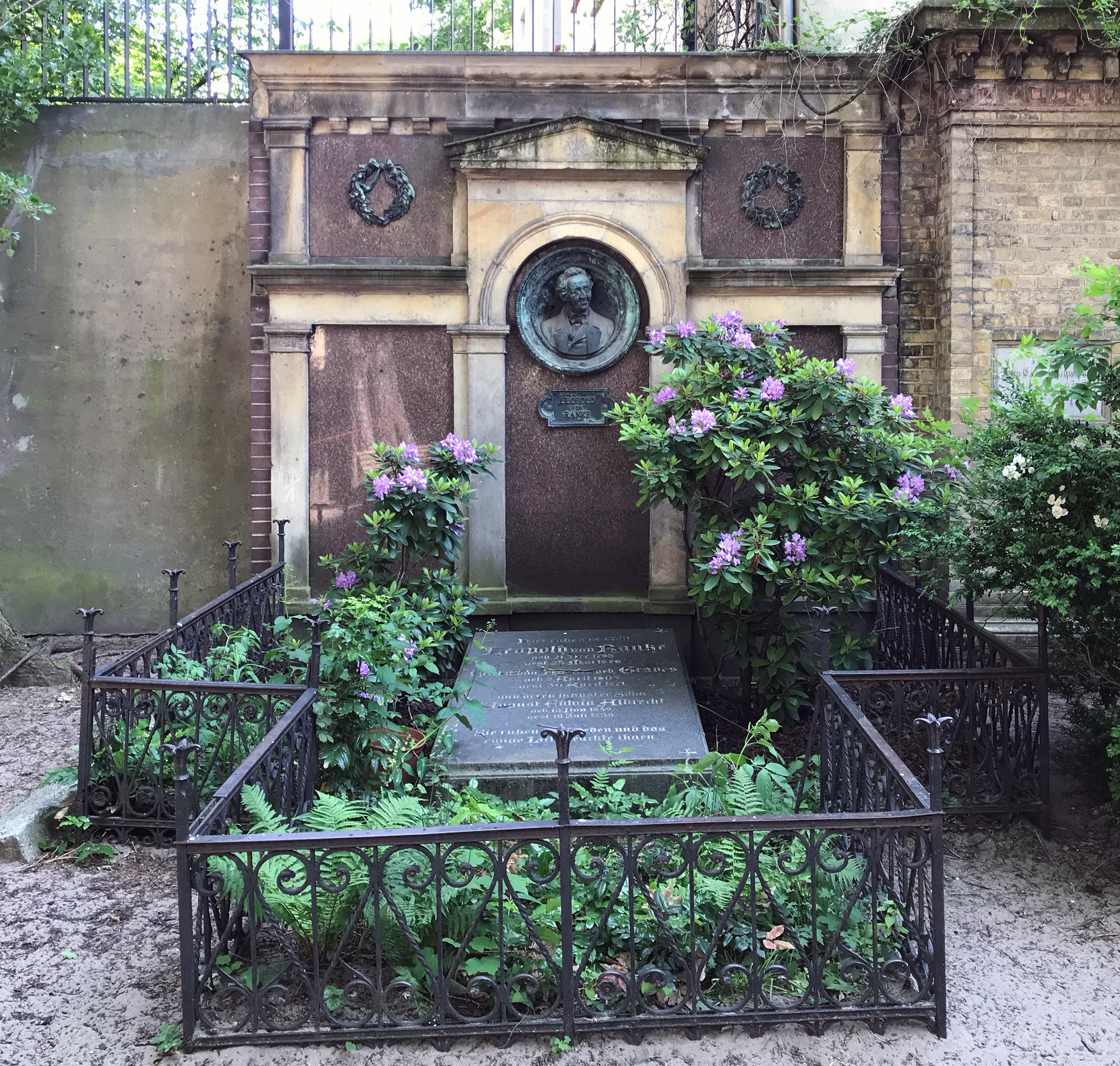 Grave of honor, Leopold von Ranke, Große Hamburger Straße 29, Berlin-Mitte, Germany